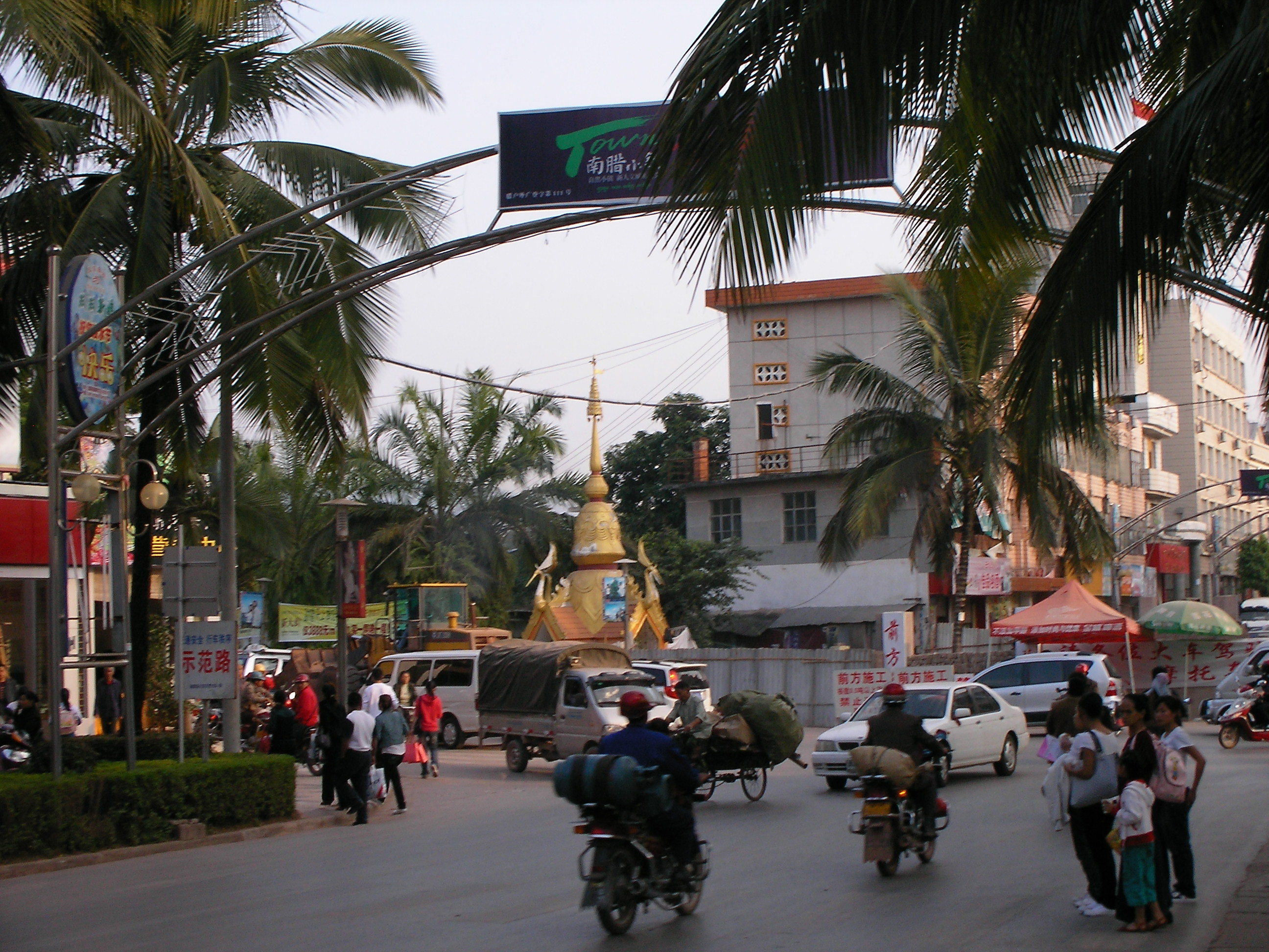 intersection in Mengla, Yunnan province, China